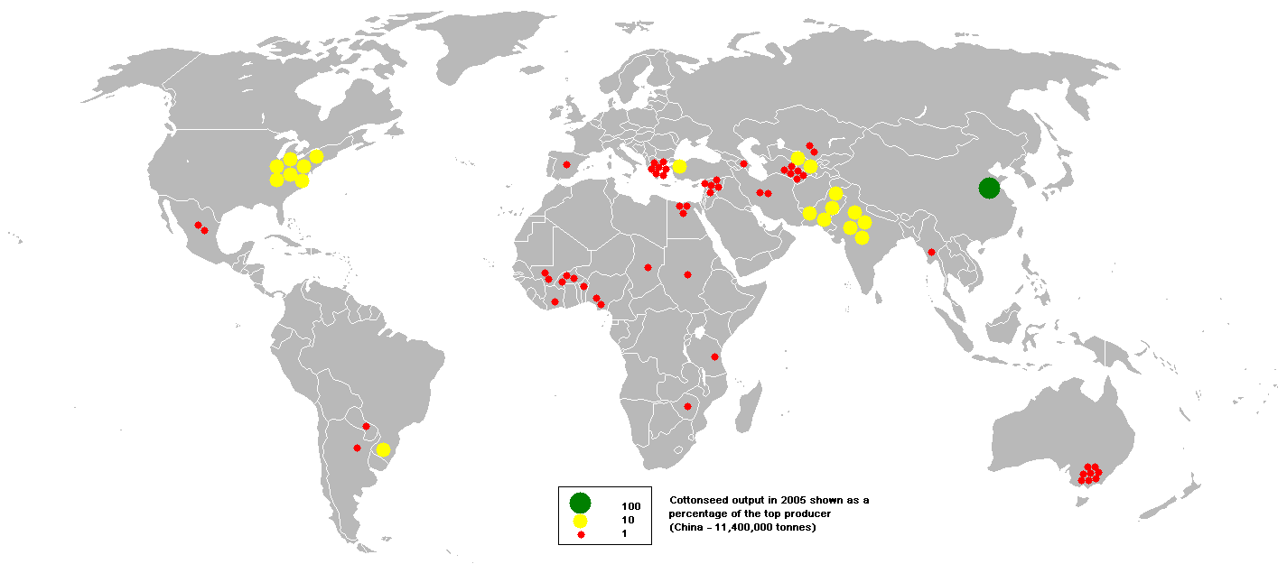 This bubble map shows the global distribution of cottonseed output in 2005 as a percentage of the top producer (China - 11,400,000 tonnes). This map is consistent with incomplete set of data too as long as the top producer is known. It resolves the accessibility issues faced by colour-coded maps that may not be properly rendered in old computer screens. Data was extracted on 18th June 2007 from Based on Image:BlankMap-World.png